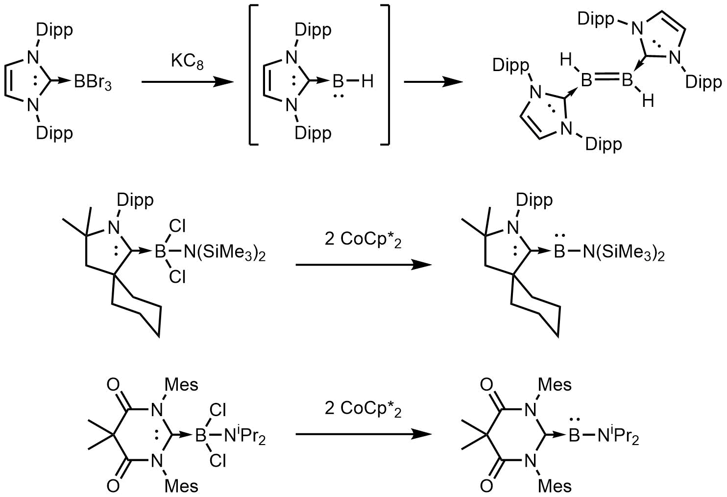 MonoLewisBaseBorylene